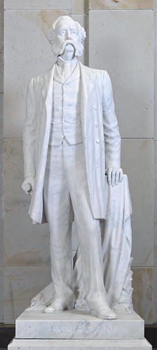 The National Statuary Hall Collection: Wade Hampton Frederick Ruckstull (1853–1942) Alternative namesFrederick Wellington Ruckstull; Friedrich RuckstuhlDescriptionFrench-American sculptorDate of birth/death22 May 185326 May 1942Location of birth/deathBreitenbach (Haut-Rhin)New York CityAuthority control : Q1412474 VIAF: 96051528 ULAN: 500055433 LCCN: n88172090 SUDOC: 179940473 WorldCat